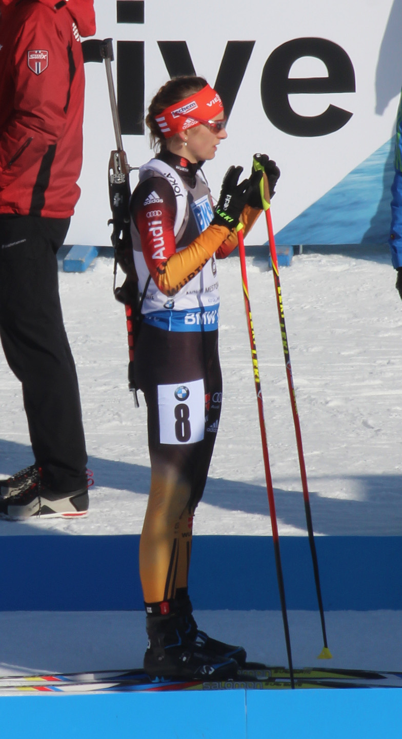 Vanessa Hinz at Biathlon World Cup 2015 in Nové Město, Czech Republic – sprint women